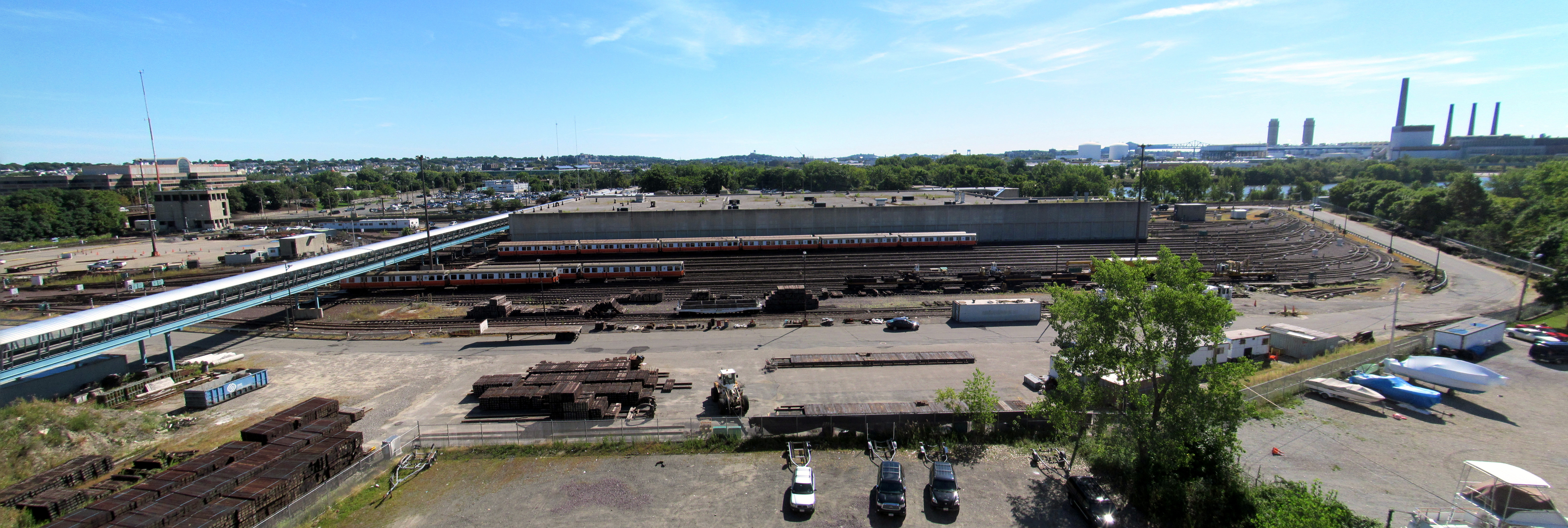 Panorama of Wellington Carhouse with Everett in the distance, taken from the top of the parking garage. The walkway from the garage and shops to the station is seen at left.